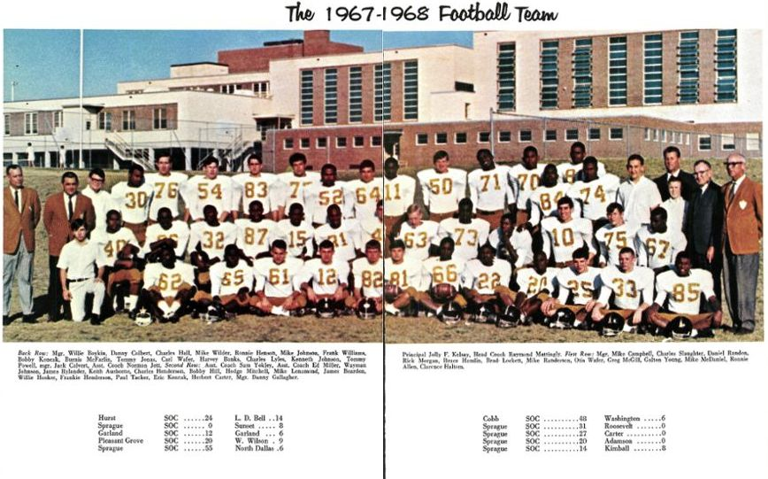 Group shot of the 1971- 1972 South Oak Cliff High School football team in Dallas, Texas, USA